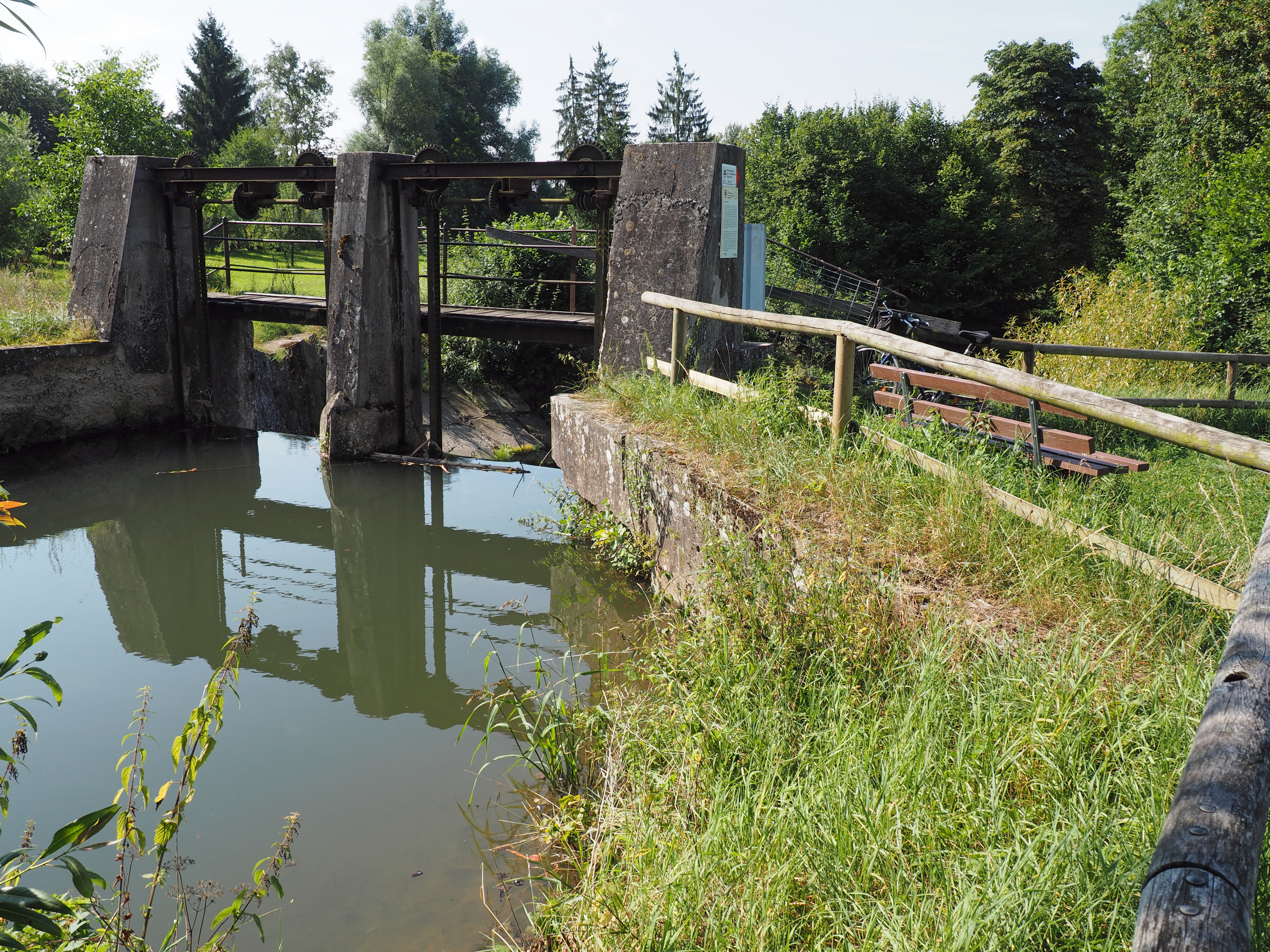 Weir on the Wieslauf in Schlechtbach in the Rems-Murr district